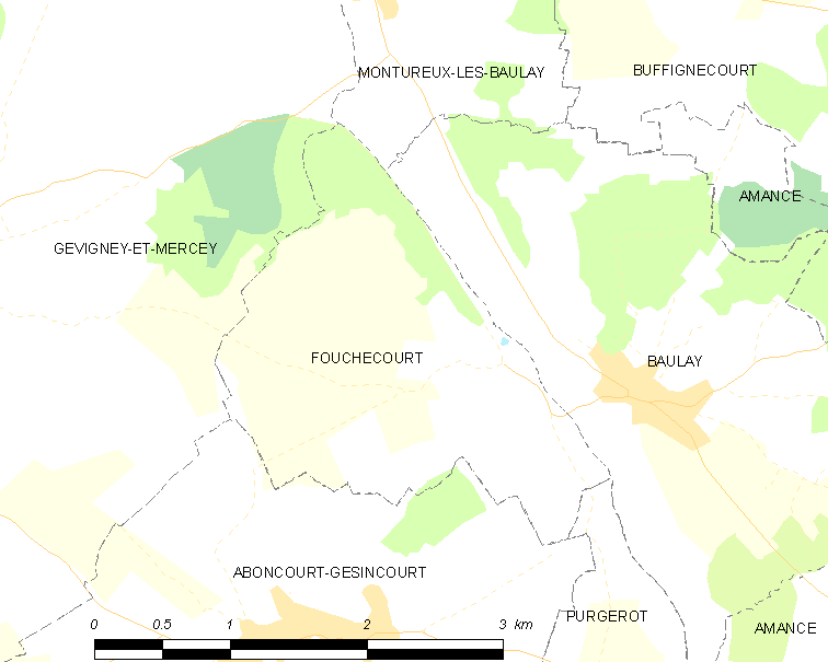 Map of French municipality